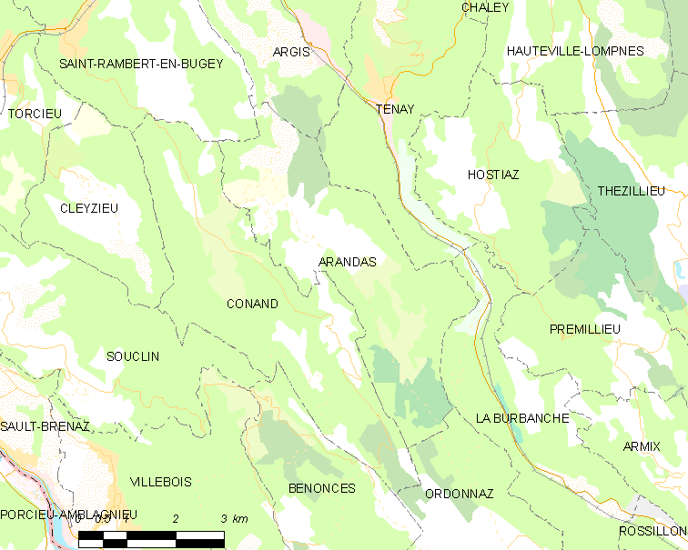 Map of French commune: Arandas Map commune FR insee code 01013.png